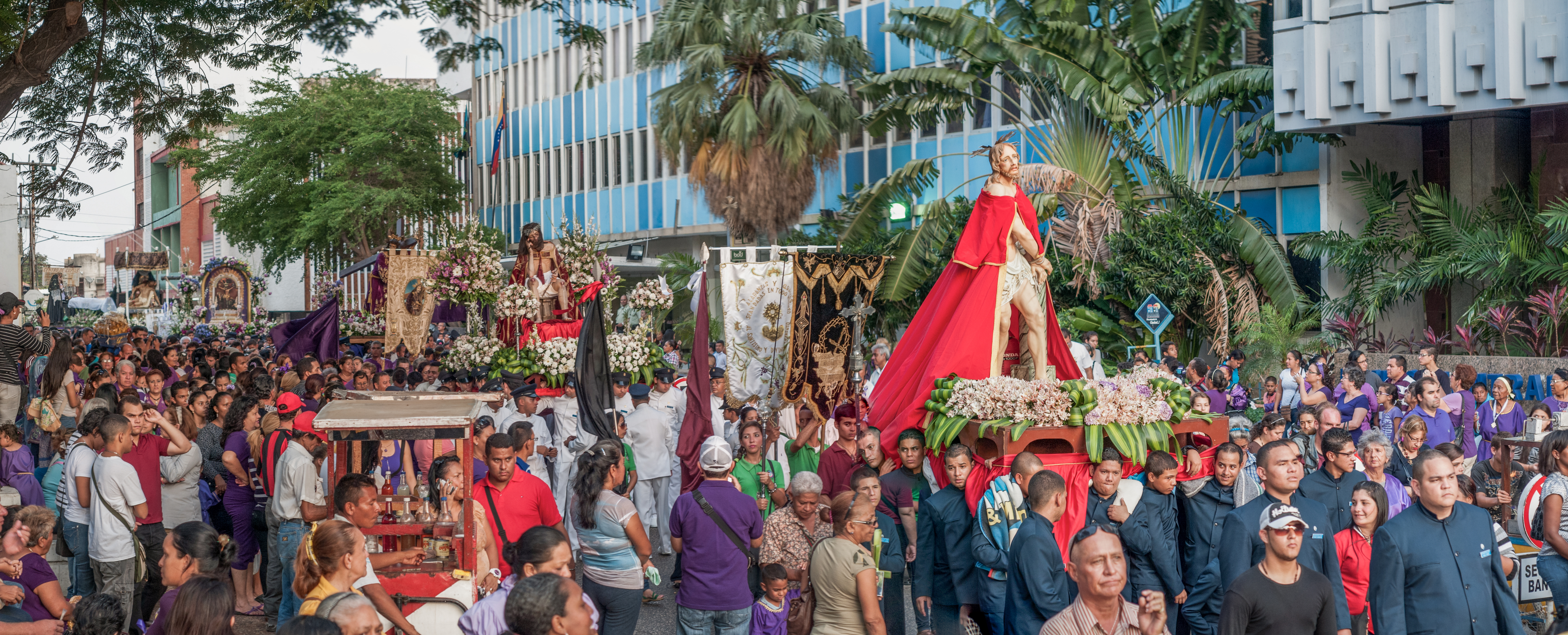 Stations of the Cross